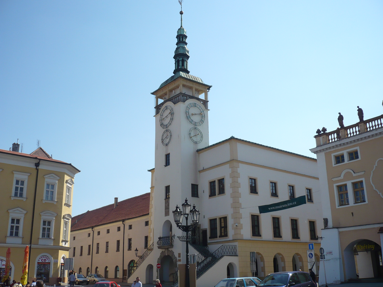 Kromeriz - Town Hall